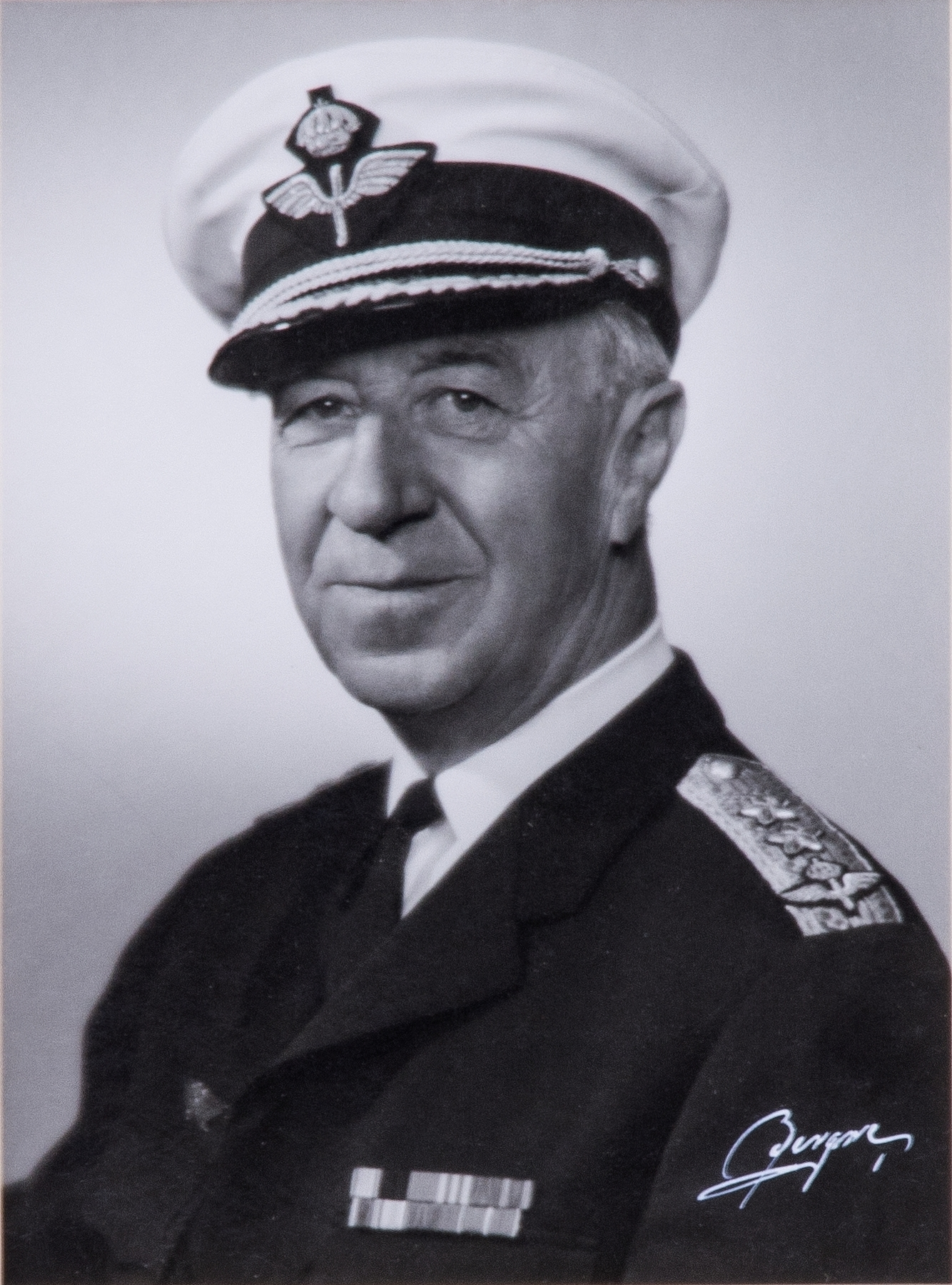 Portrait photograph of the Chief of the Air Force Lage Thunberg.